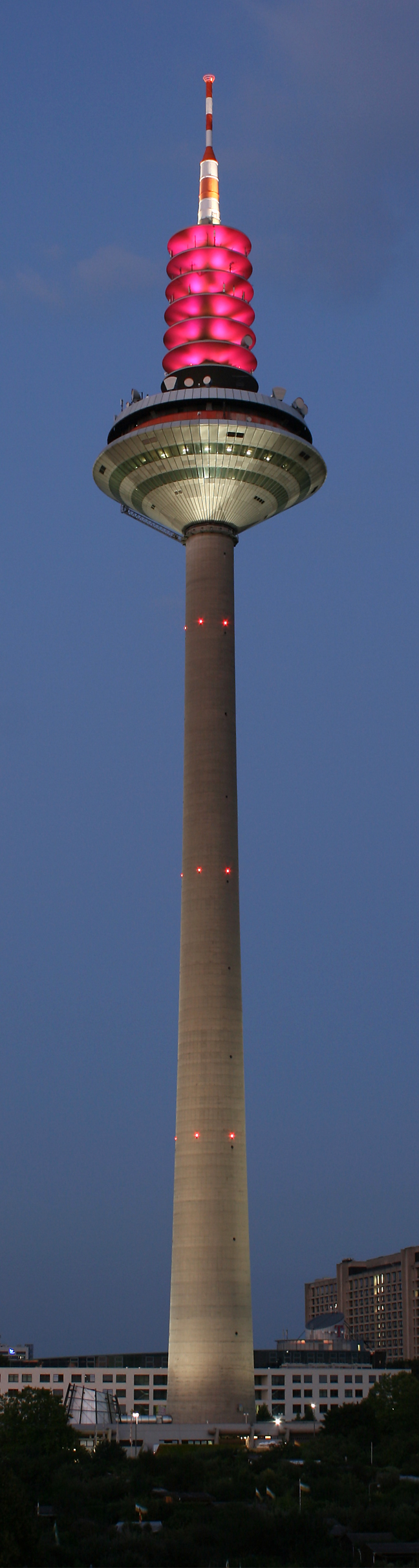 the Europaturm in Frankfurt am Main in the evening